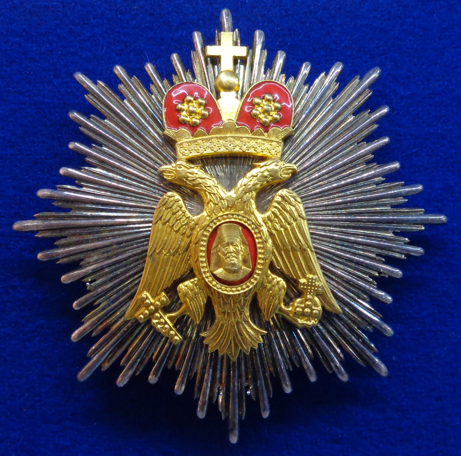 Order of Makarios III, Grand Commander's star. Republic of Cyprus. The exhibition of the Tallinn Museum of Orders of Knighthood, Estonia.